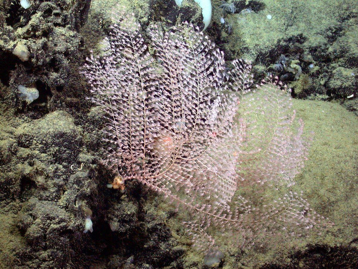 Golden coral (Chrysogorgia pinnata) on the Davidson Seamount at 3114 meters. Credit: NOAA/MBARI 2006